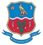 Coat of arms of Tiszatelek, Hungary